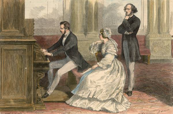 Engraving of Prince Albert performing on his organ in the Old Library in Buckingham Palace in presence of Queen Victoria and Felix Mendelssohn in 1842